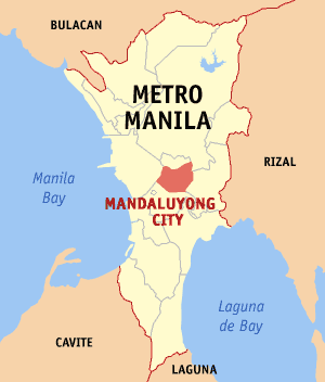 Locator map of Mandaluyong City in Metro Manila, Philippines.